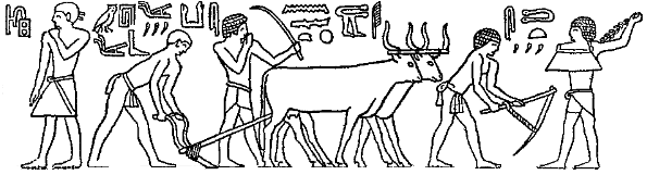 An illustration from the Encyclopaedia Biblica, a 1903 publication which is now in the public domain. Fig. 3 for article "Agriculture". Image of an Ancient Egyptian plough.